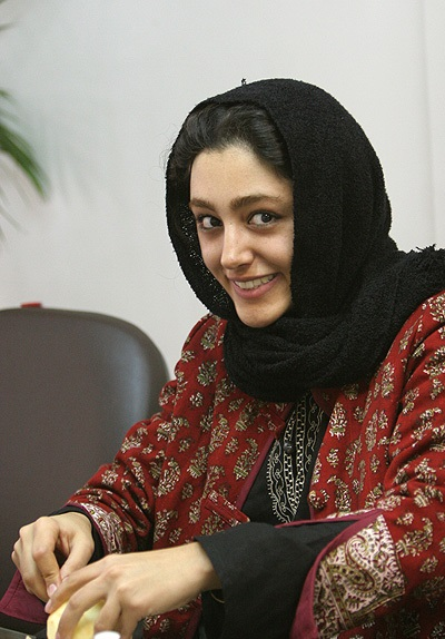 Press Conference of M For Mother, Fars news agency office - 8 November 2006